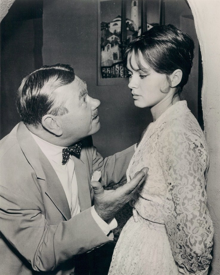 Oskar Homolka (aka Oscar Homolka) & Danielle De Metz in Alfred Hitchcock Presents - publicity still (original image cropped : see source)